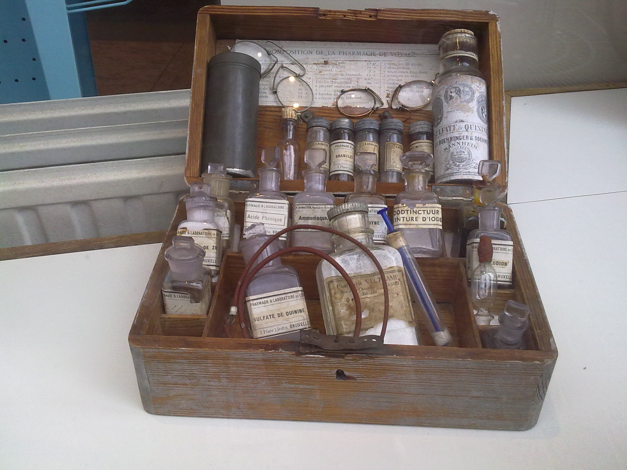 Travel first aid kit / pharmacy (Veltkamp pharmacist; Hasselt, Belgium)